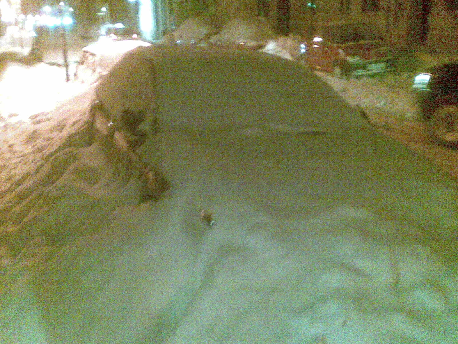 State of emergency in Serbia due to cold weather (Novi Sad)